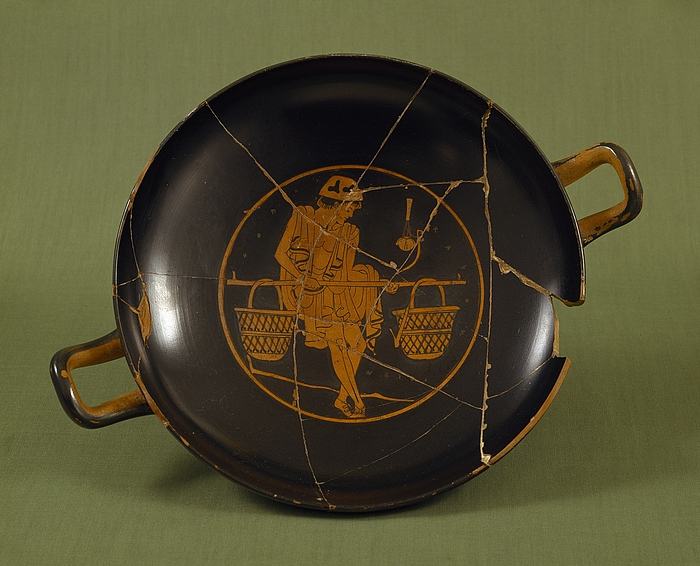 Red-Figure Kylix with a youth carrying pole with two baskets. Greek, c. 490 BCE by Onesimos. The original photo (designated CC0) is from the Thorvaldensmuseum with the following description: Fired clay, red figure technique. 26,5 cm diameter Inventory number: H605 On the bottom of this drinking bowl, a so-called kylix, we see a young man portrayed. He is dressed in a cloak tucked up at the waist and is wearing a fur hat on his head and shoes on his feet. He is using both hands to hold a yoke on which two wicker baskets are balanced. His restless stance and the posture combine to underline the exercise in balance. A stick lies at the young man’s feet, and an oil bottle and a scraper hang near his left shoulder. The interpretation of the motif is uncertain. For instance, the young man has been seen both as a fisherman and as a representative of some sport. The scene is accompanied by the inscription “HO PAIS KALOS, NAIXI” (The boy is fair, indeed he is), which is regularly seen on Greek vases and so brings us no nearer an interpretation of the motif. The kylix derives from Athens and is decorated by means of the red-figure technique. The decoration can be attributed to the vase painter Onesimos, who was active in the late Archaic period at the beginning of the 5th century. Onesimos was one of the earliest red-figure painters and is considered one of the finest vase painters of the period.